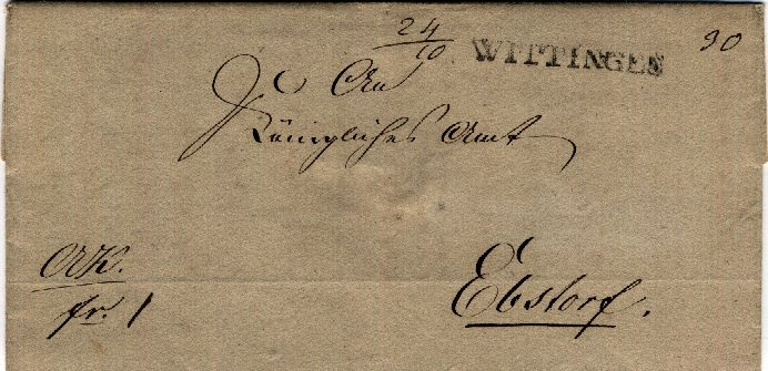 German "Altbrief", taken from a philatelic Collection. There is no stamp, because this letter is written in 1834, the time before stamps were used.